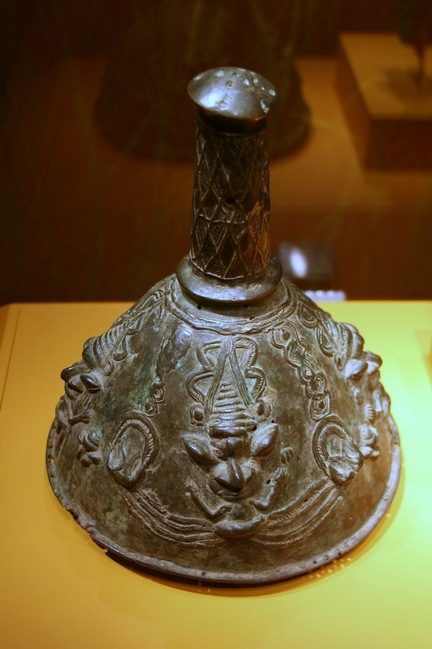 Crown, Yoruba peoples, Nigeria, Late 19th to early 20th century, Copper alloy The four staring faces are said to represent the all-seeing gods or ancestors. Their protruding eyes signify when the spiritual eye replaces ordinary vision. The two figures with mudfish legs refer to supernatural powers in two realms, land and water-or reality and spirit. The projecting stem of the crown may allude to stored spiritual power in the wearer's head and also show that the wearer is exempt from everyday chores such as the carrying of loads on one's head.